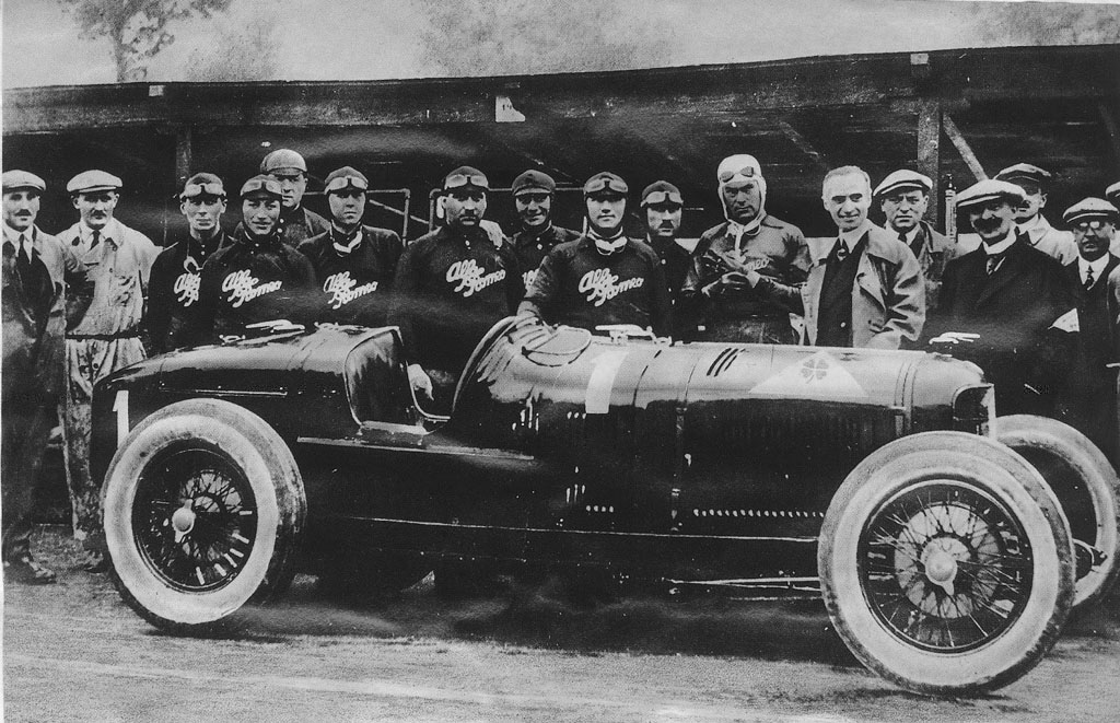 The Alfa Romeo racing team at Monza for the Italian GP on 19 October 1924, where they took the four top places with Alfa Romeo P2.[1] From left: Vittorio Jano (engine designer/engineer), Luigi Bazzi (mechanic in white dress), Eugenio Siena (?), Angelo Guatta (says [2]), Ferdinando Minoia (back, driver 4th place), Giulio Ramponi (mechanic), Giuseppe Campari (driver, 3rd place), unknown, Antonio Ascari (driver, winner), unknown, Louis Wagner (driver, 2nd place), Arturo Mercanti (older man, does not really look like Mercanti...), unknown, Nicola Romeo (team owner), unknown and Giuseppe Merosi (glasses, older man) at far right.